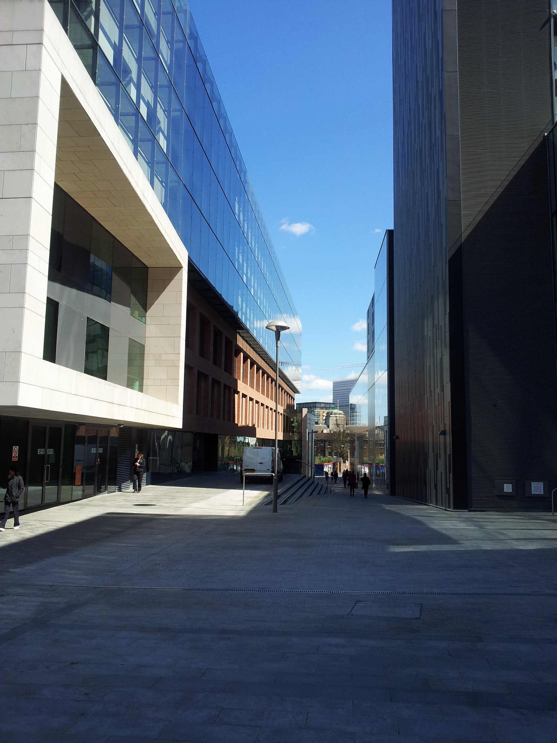 View of the Love Lane development (left: council offices & new library; right: Tesco & apartments) in the centre of Woolwich, South East London